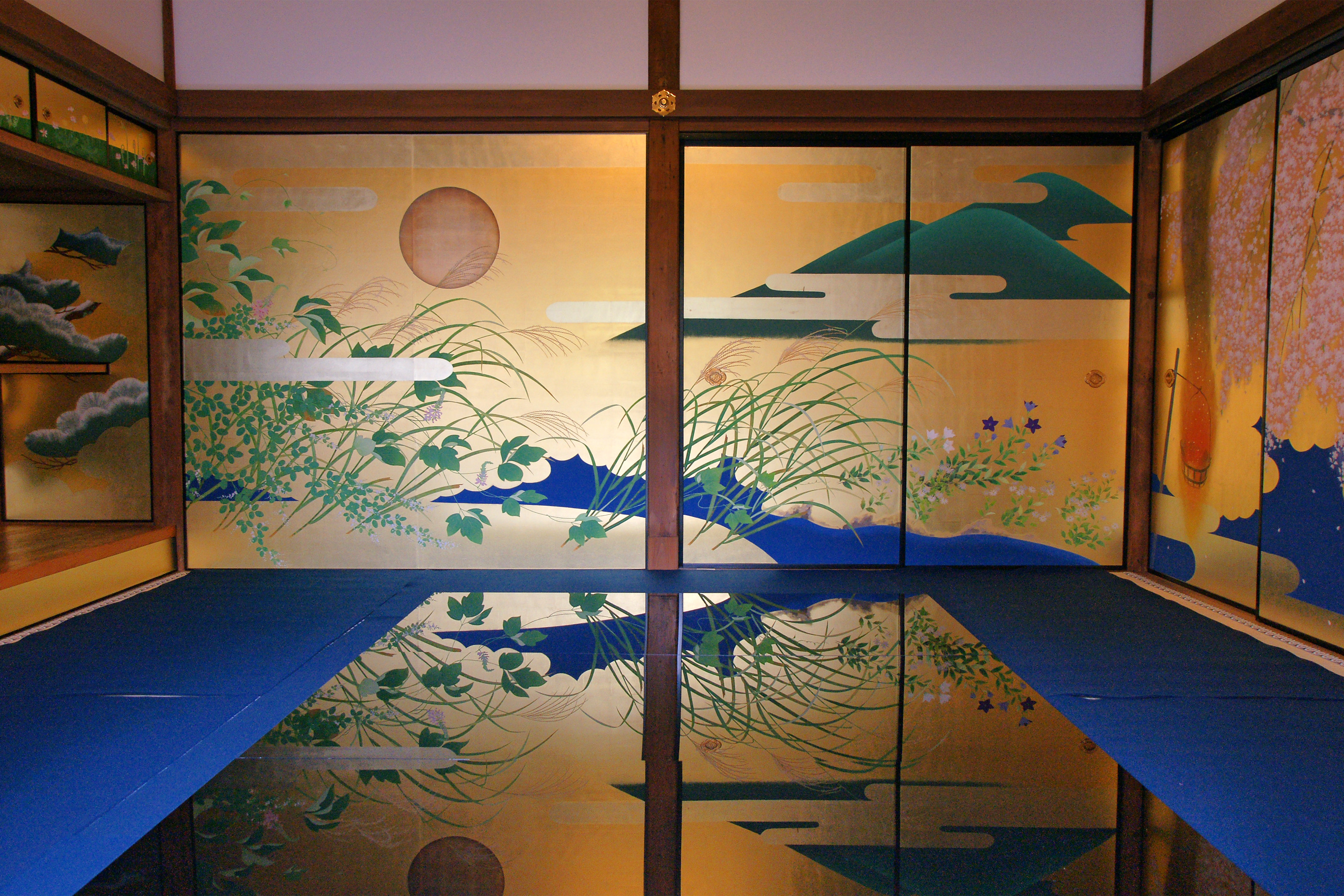 Entokuin in Higashiyama-ku, Kyoto, Kyoto Prefecture, Japan